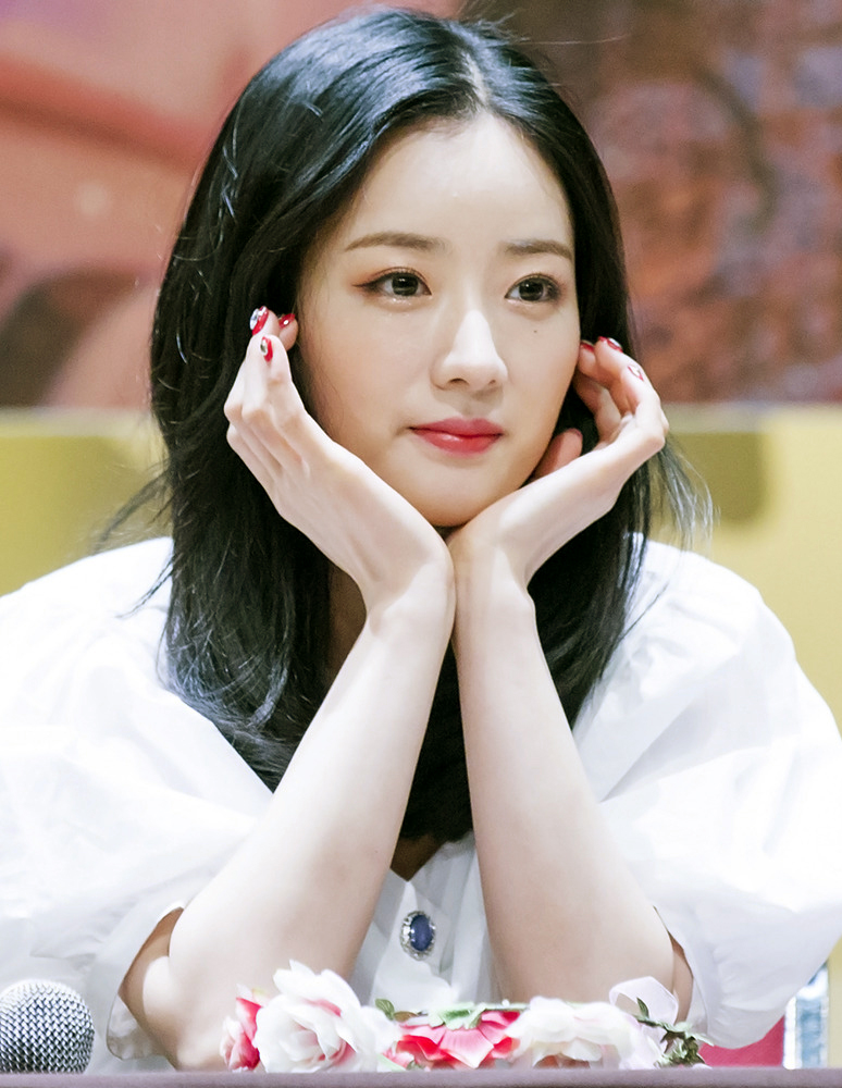 Yoon Bo-mi of Apink at a fan signing in Sangam in July 2018